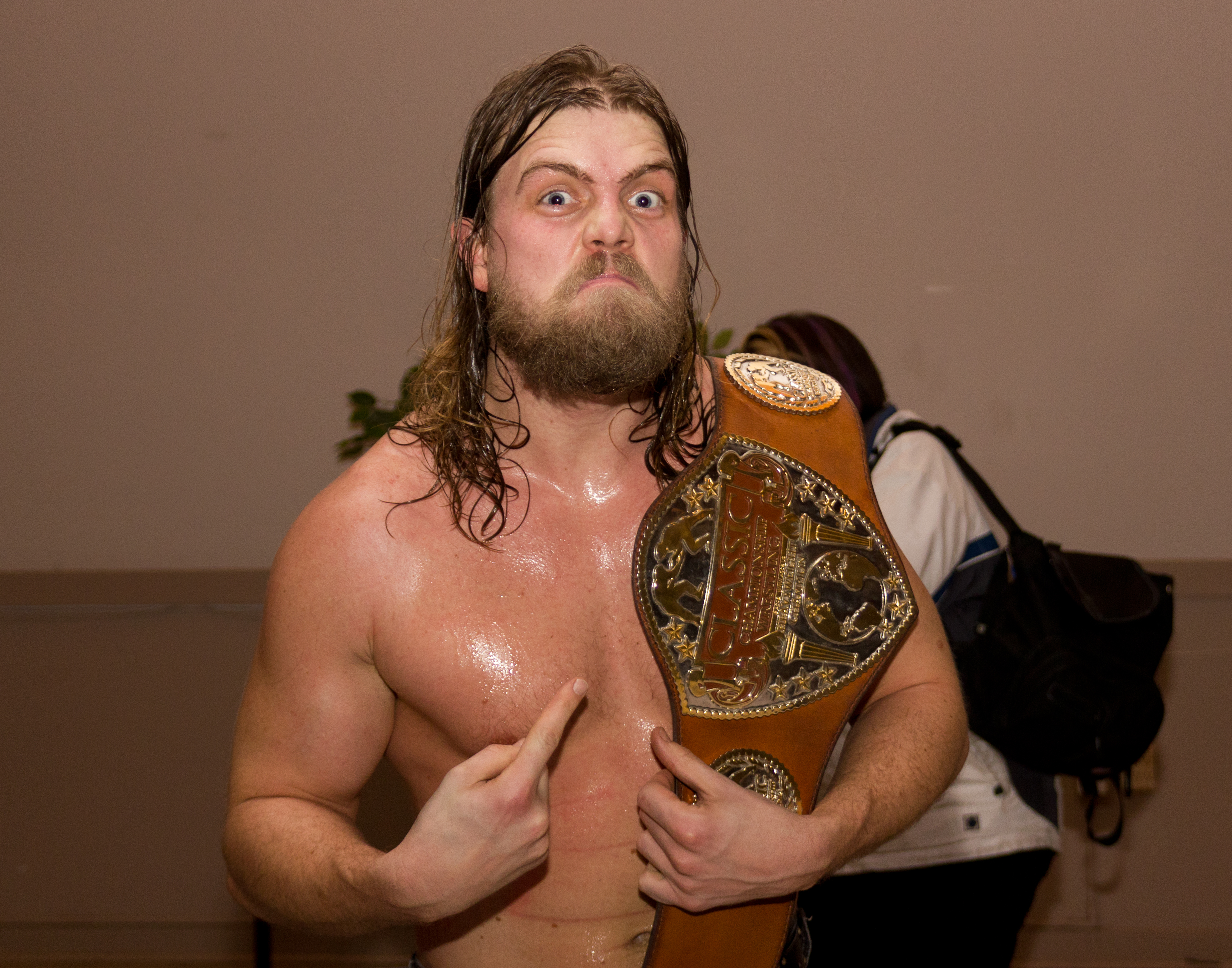 Wrestler Cody Deaner with the Classic Championship Wrestling belt